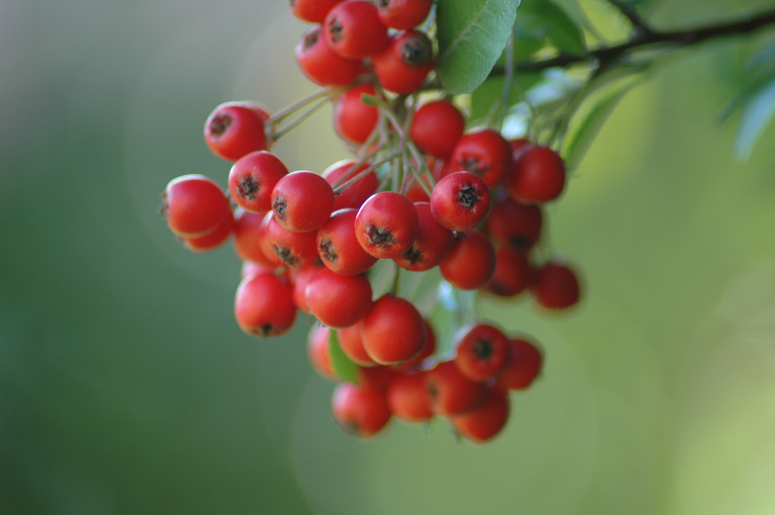 Sorbus sp., probably Sorbus aucuparia but not definitely so